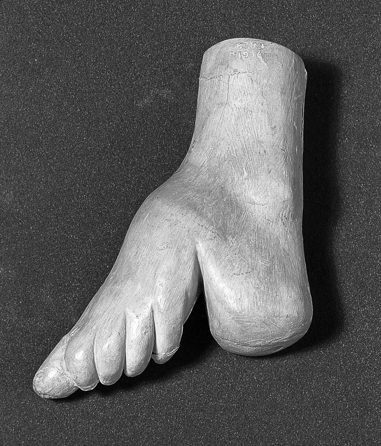 Cast of woman's foor deformed by foot binding from infancy, an old custom forbidden since the beginning of this century. Wellcome Images Keywords: Child Welfare